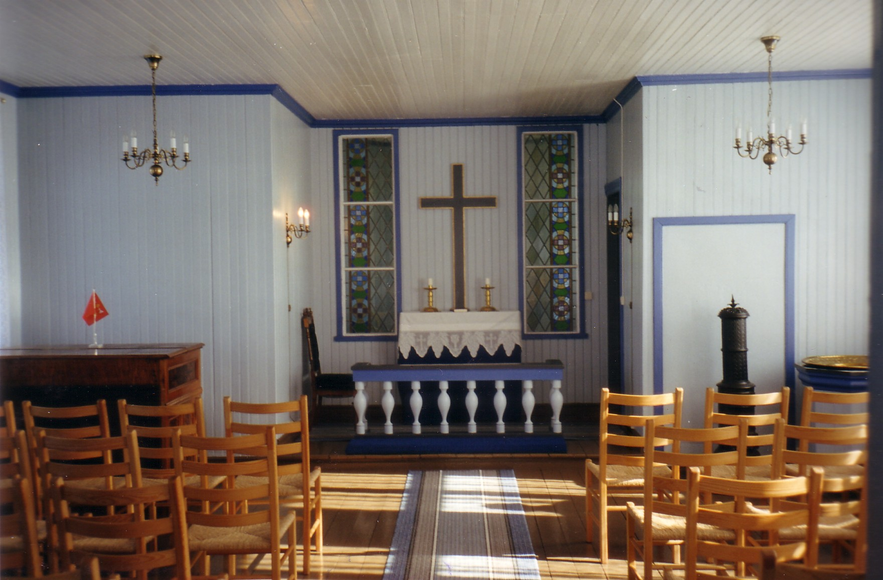 The Stegelnes Chapel in Vardø, North Norway, built in 1908. Restored ca. 1995.